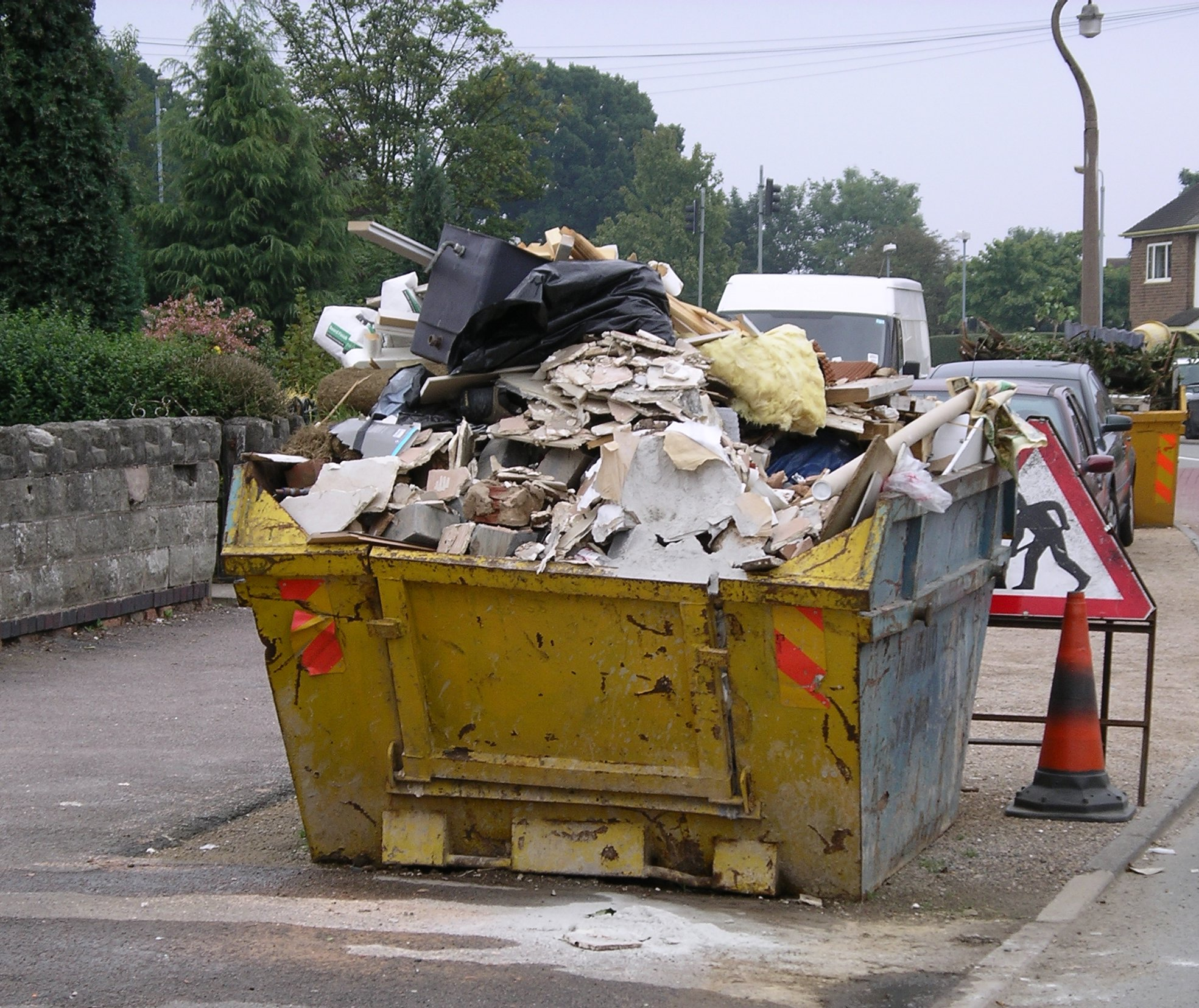 Photo of a full skip. The skip is situated just off of a road. Photo taken on 16 September 2006.